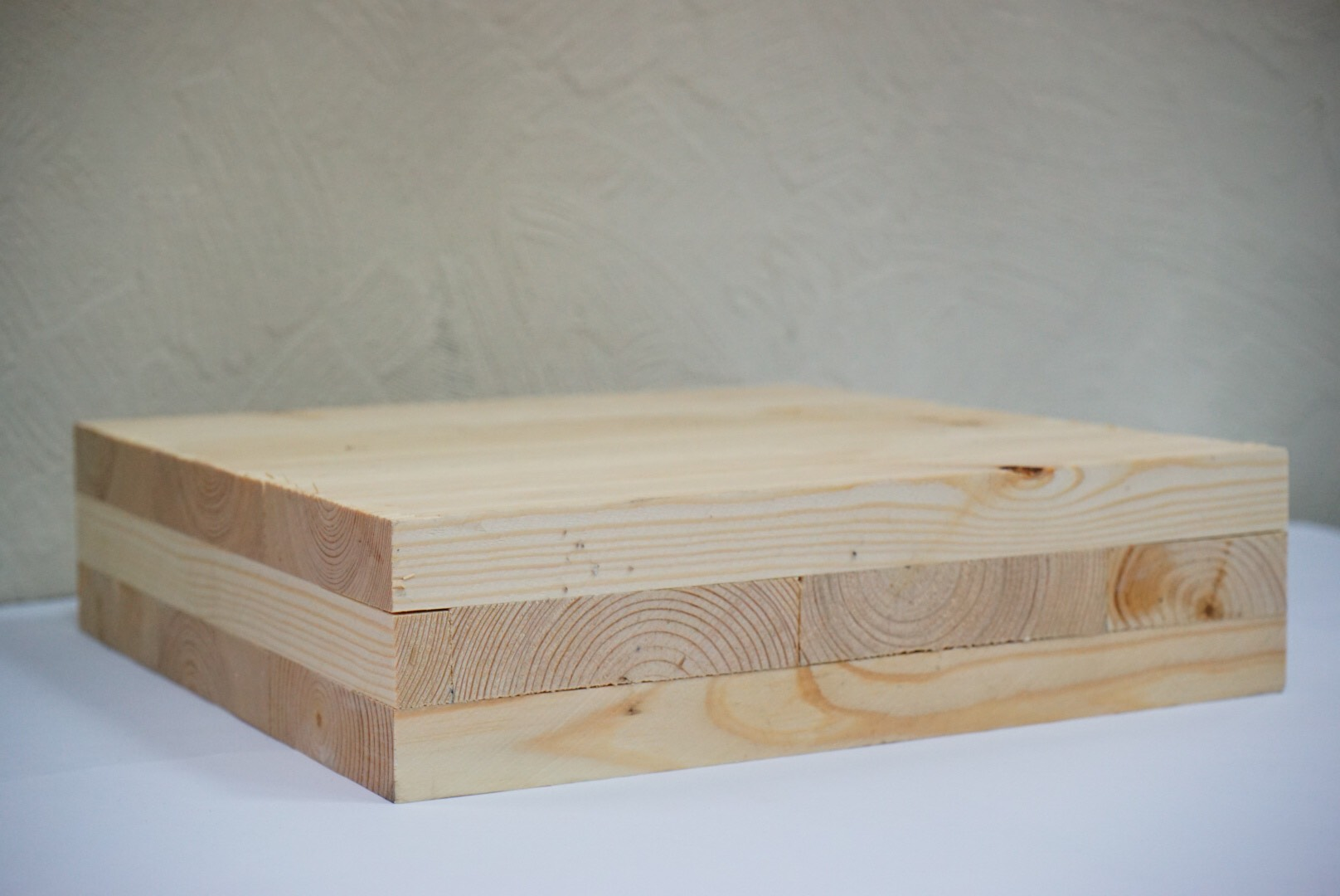 Multilayer glued wood panel made from three layers of pine